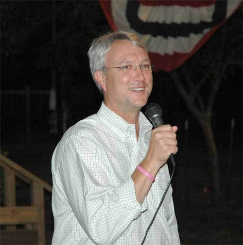 2006 Texas Democratic Gubernatorial candidate Chris Bell. Shortly after snapping this shot, we sat down for an interview in which he told me he was 110% certain to beat Rick Perry (thus his whole "calling Democrats home" pitch, which, well, failed).